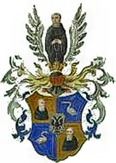 Coat of Arms House of Münnich